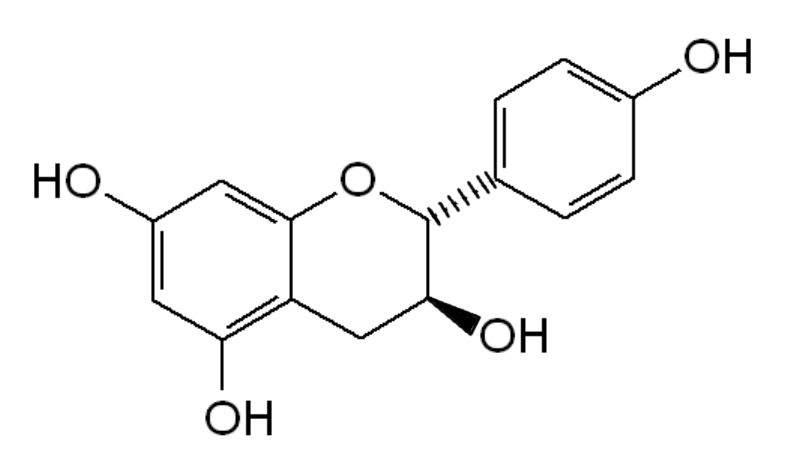 Chemical structure of Afzelechin.